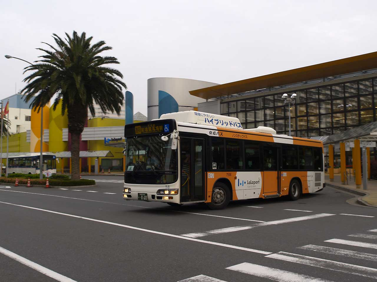 Fleet of Keisei Bus, for LaLaport Tokyo Bay shuttle bus from Funabashi Keibajo Station. Model Hino Blue Ribbon City Hybrid HU8JMFP License plate: CBN200 KA-860 number: 7558 (ex.4458) Place: LaLaPort Tokyo Bay, Hamacho, Funbashi City, Chiba Japan